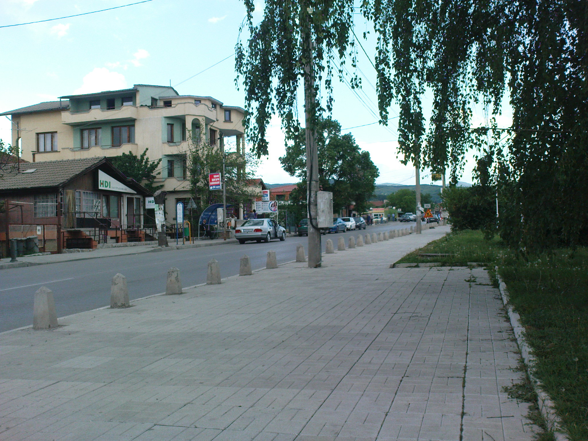 Town of Novi Iskar, Kurilo district, bul. Iskarsko defile